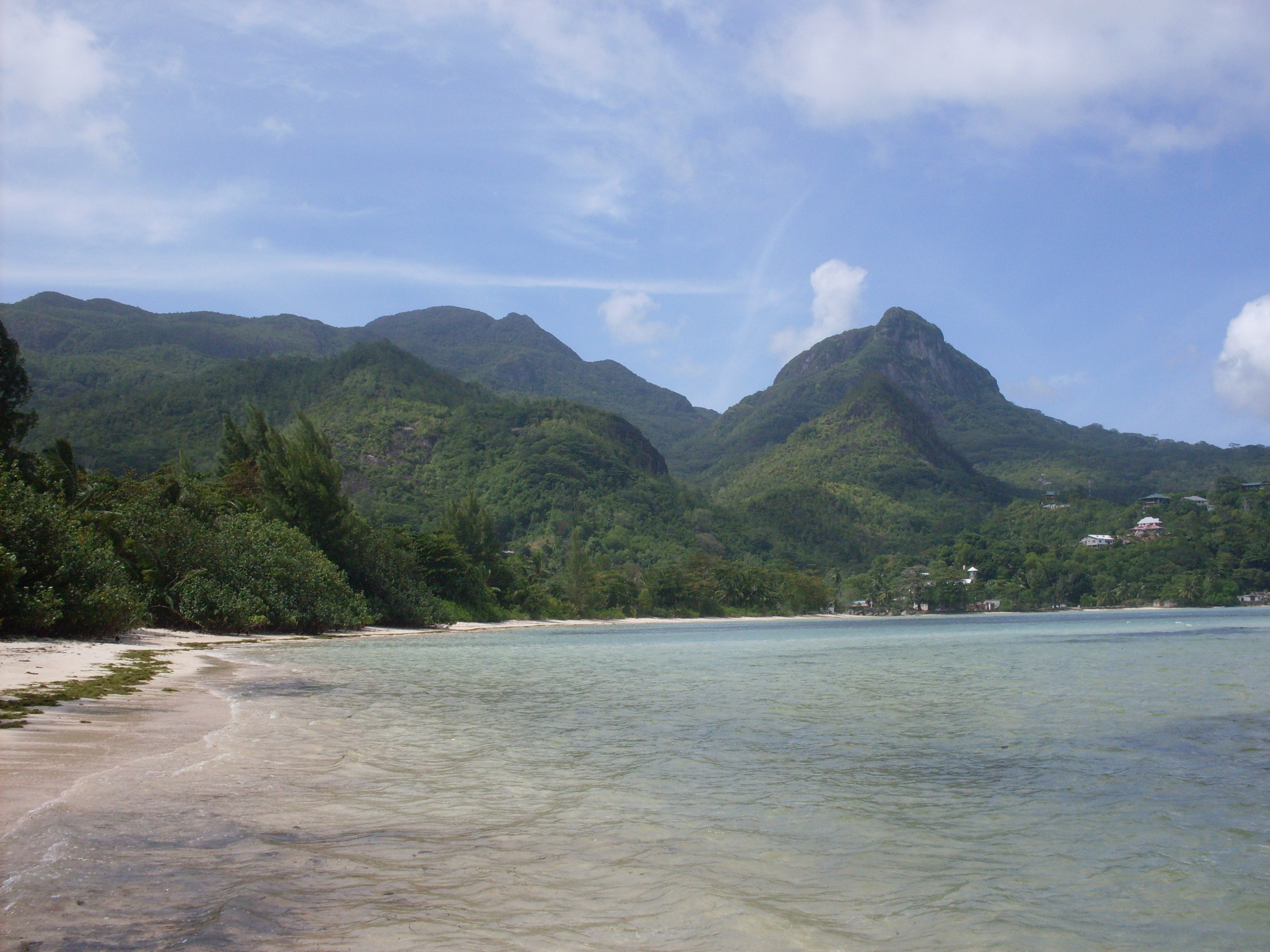 Anse l'Islette and Port Glaud (Mahé, Seychelles)